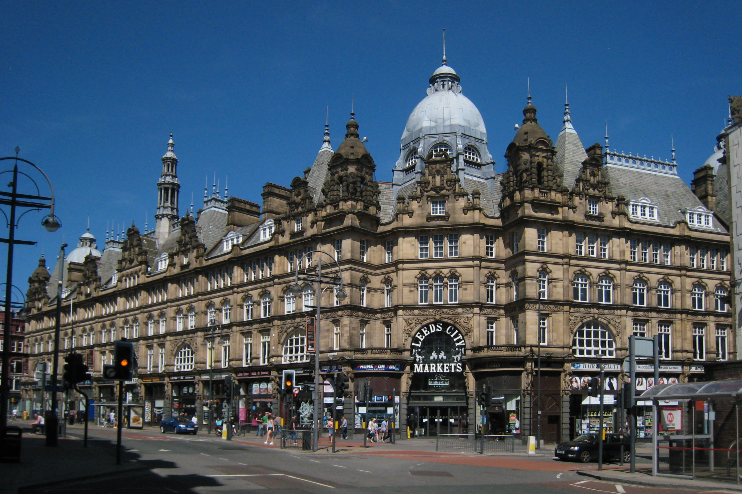 Leeds City Markets, corner of Vicar Lane (left) and Kirkgate (right) viewed from New Market Street.